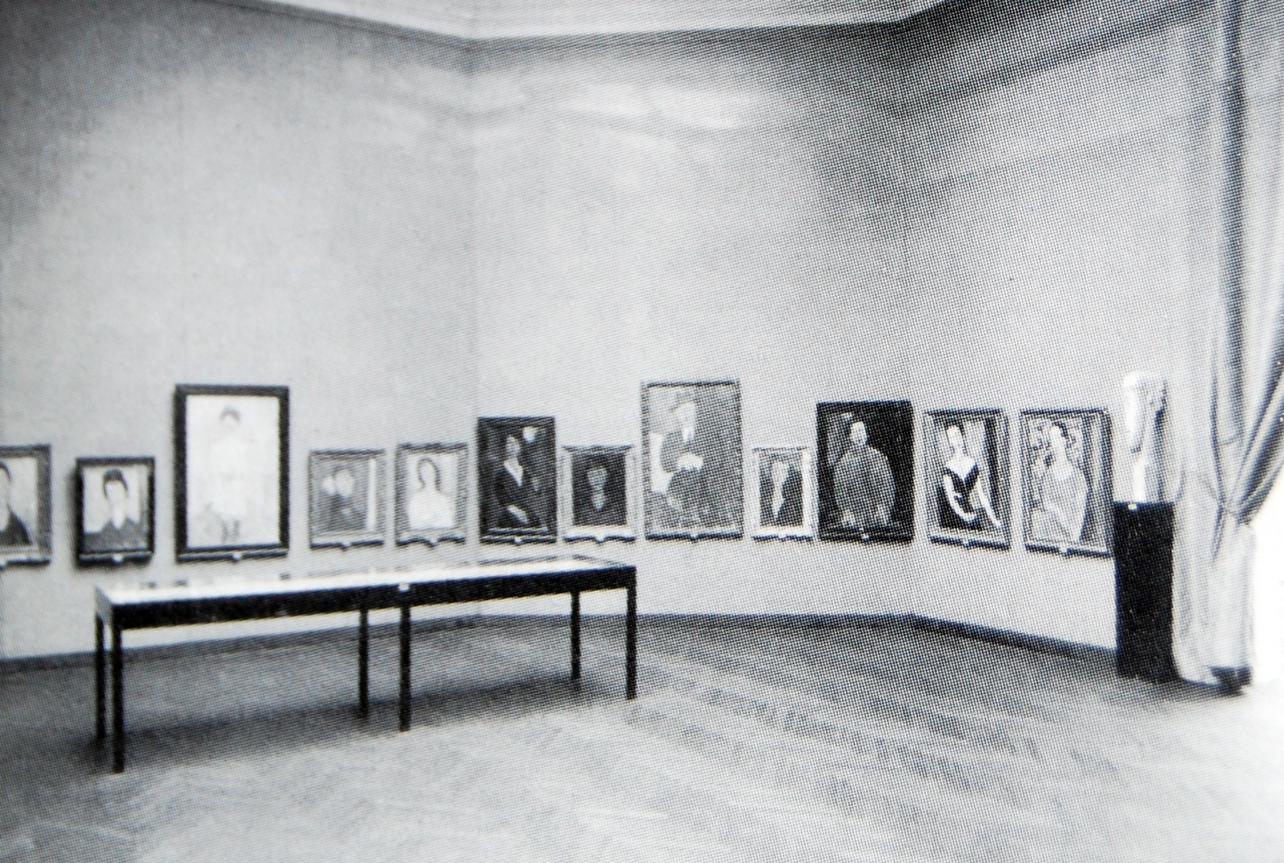 Hall of the Venice Biennale in 1930 dedicated to Amedeo Modigliani.